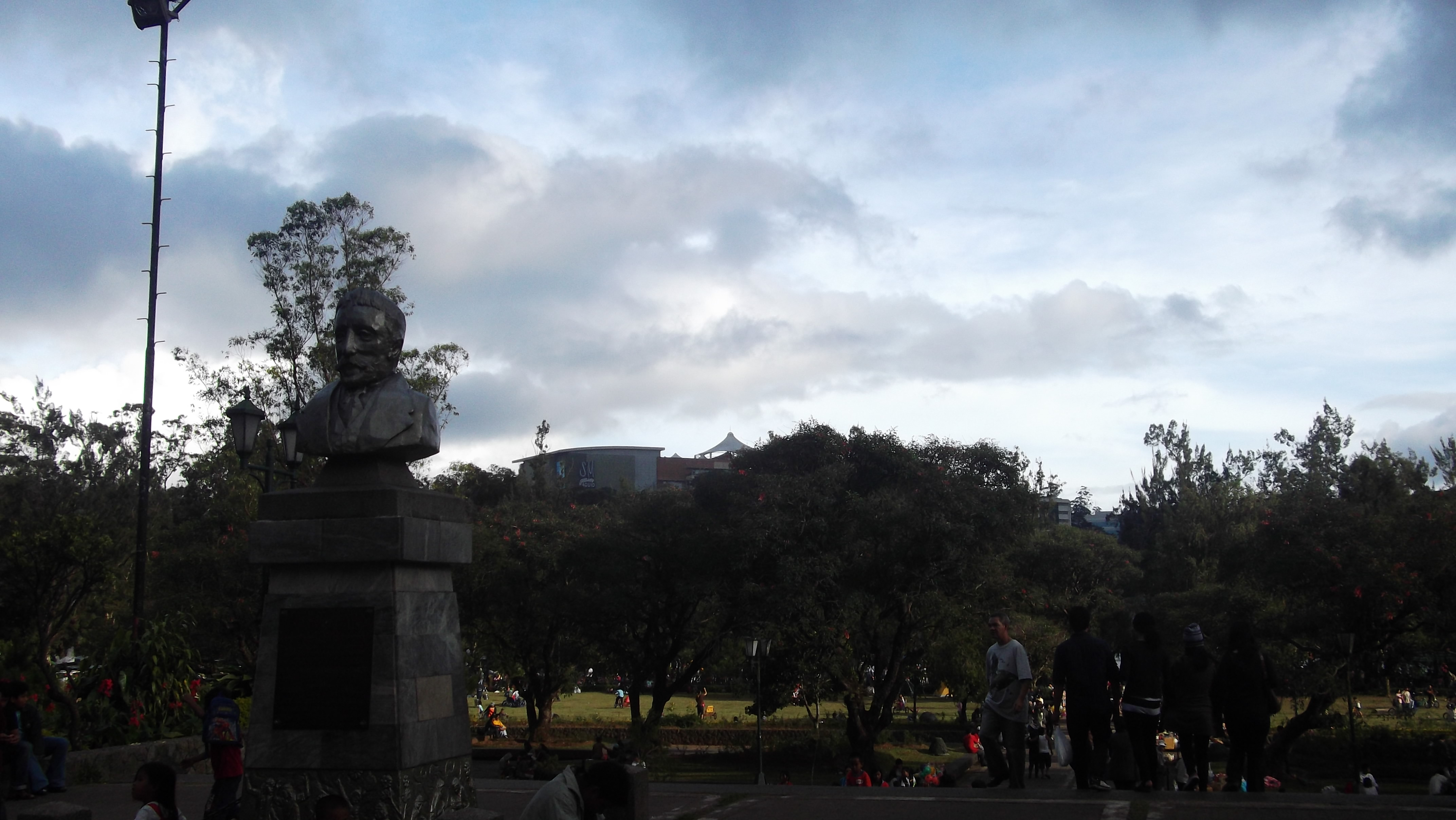 Burnham Park, Baguio